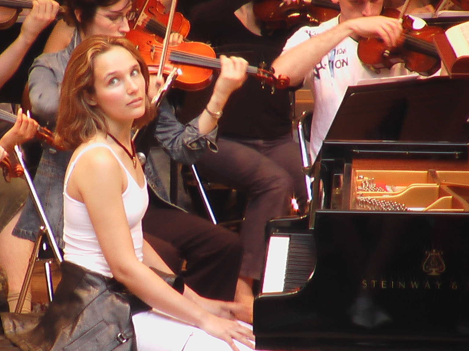 French pianist Hélène Grimaud during rehearsal on a Steinway concert grand piano at the La Roque-d'Anthéron International piano festival.